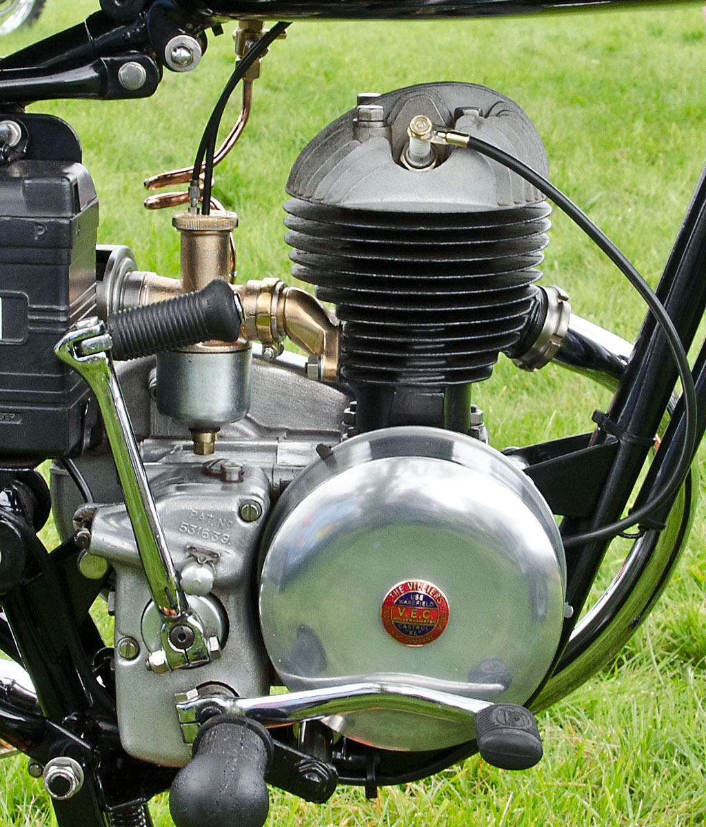 Fitted to a Francis Barnett. Villiers D series engines : 122cc (50x62mm) The 10D was intoroduced in 1949.